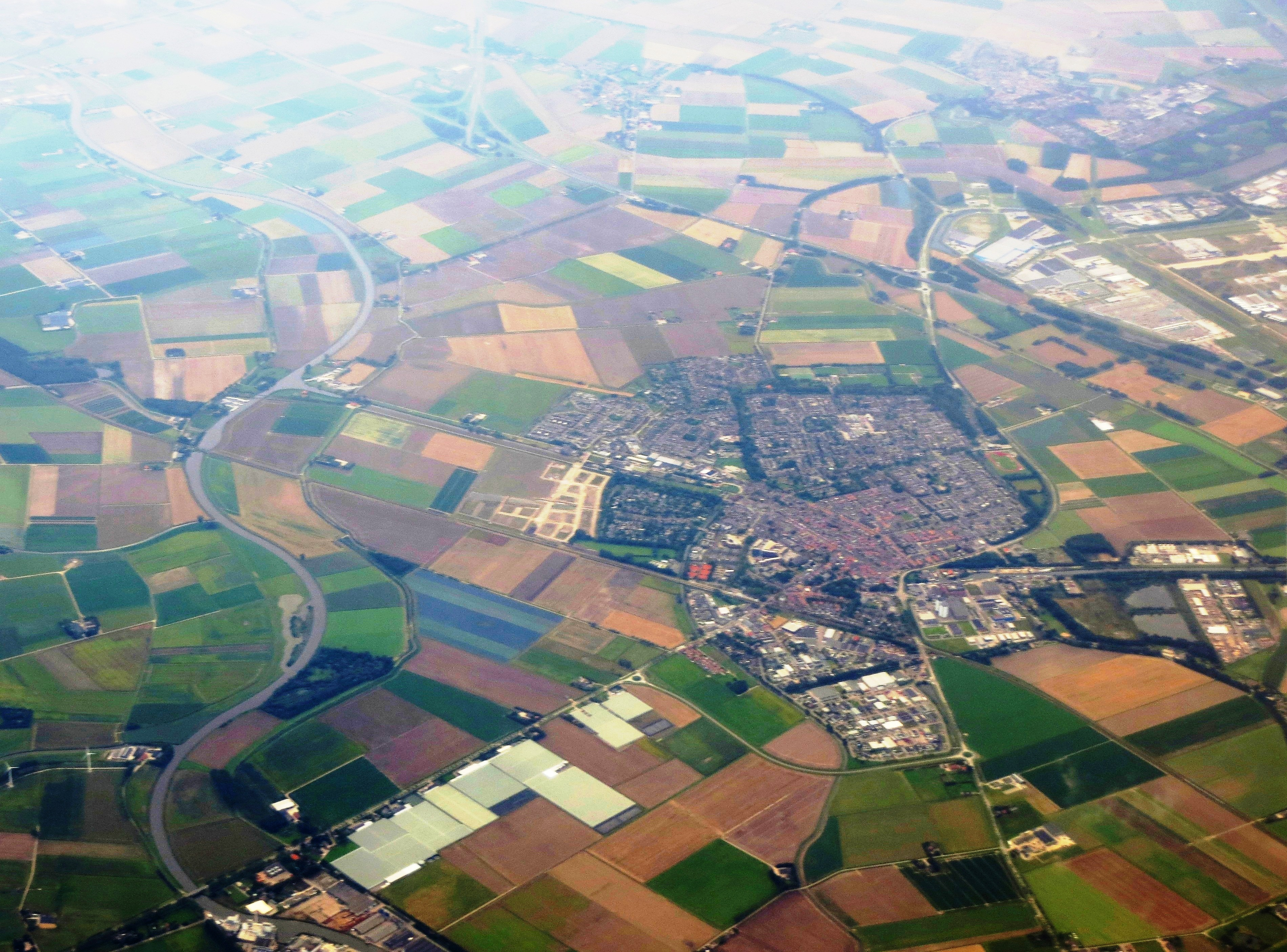 Aerial view from the east towards west, of the southern part of Holland - just southeast of Rotterdam metropole.